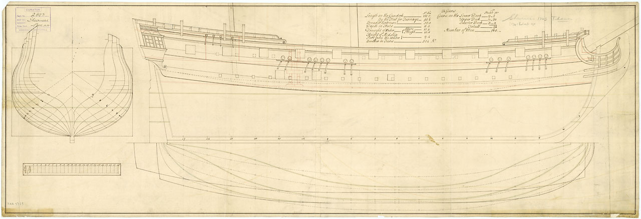 SHEERNESS 1743 lines